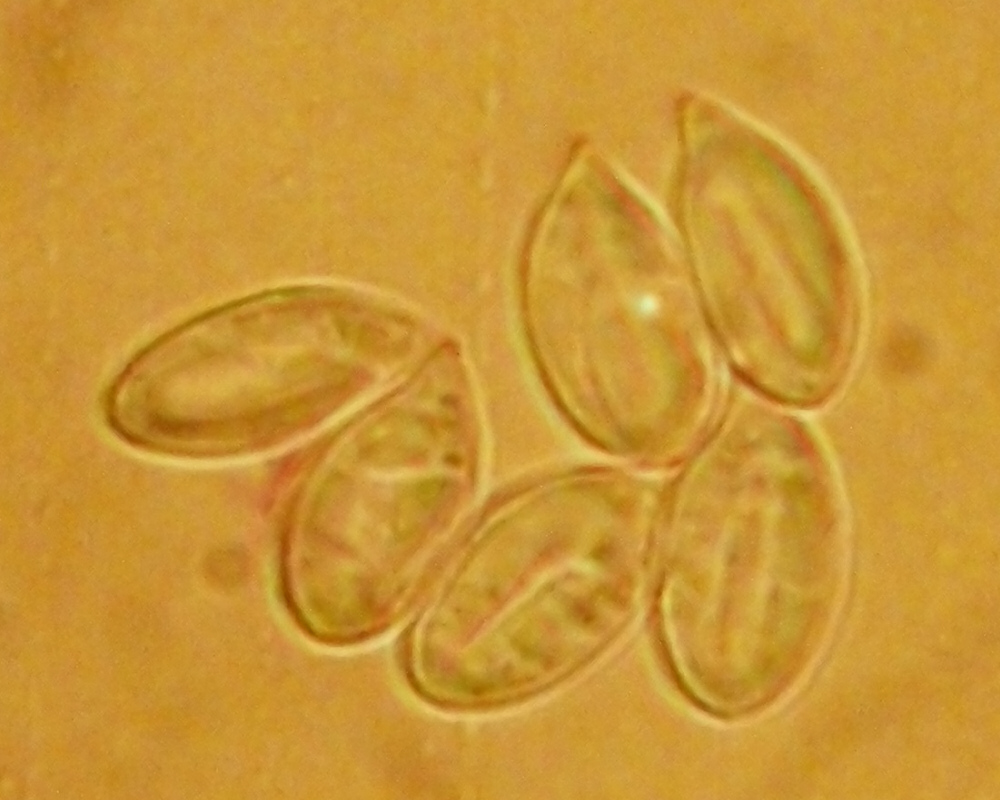 Clitopilus prunulus (Scop.: Fries) Kummer Location: Samuel H. Boardman State Park, Curry Co., Oregon, USA Observation Notes: These were almost as common in these Sitka spruce woods at this time of year as they can be in the Bishop pines in northern California. Wanted to see if I could see the ridge in the spores as reported in the literature. Congo red helped a little. For more information about this, see the observation page at Mushroom Observer.